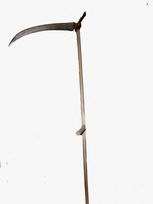 A scythe.